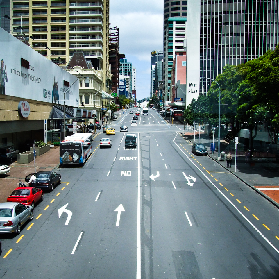 Albert street from the PricewaterhouseCoopers Building overpass.